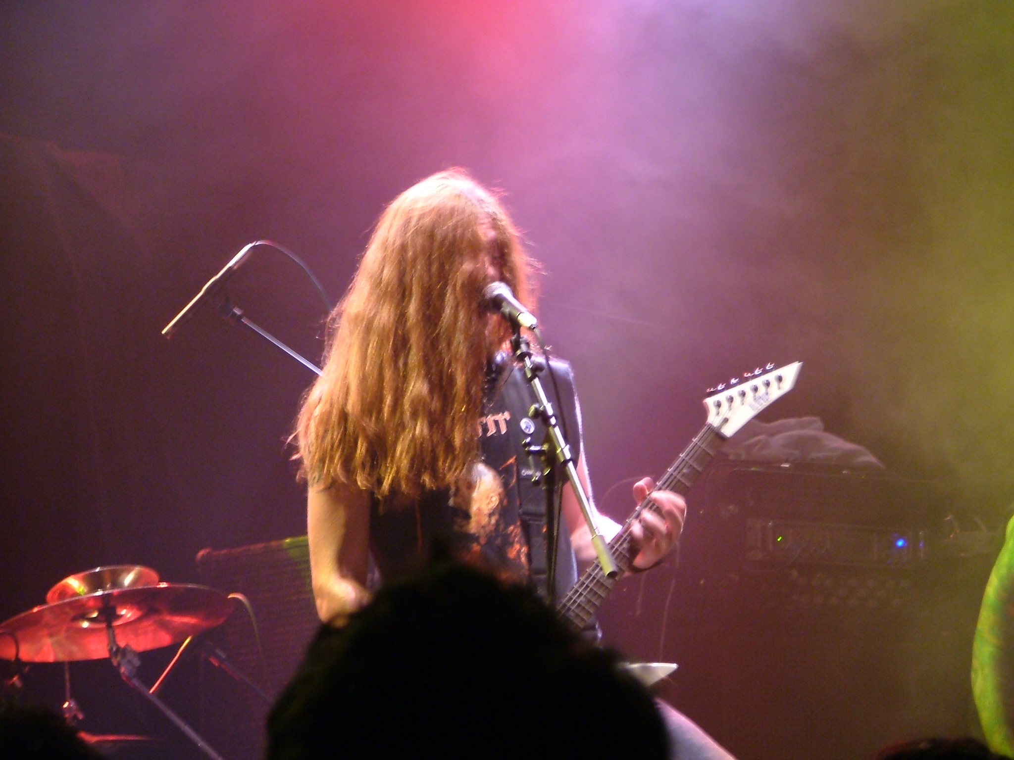 Jared MacEachern of the US-american thrash metal band Sanctity at a concert in Linz